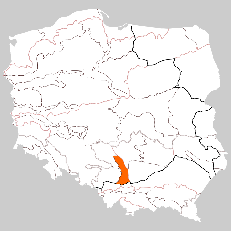 Physico-geographical regionalization of Poland Macroregion 341.3 Kraków-Częstochowa Upland